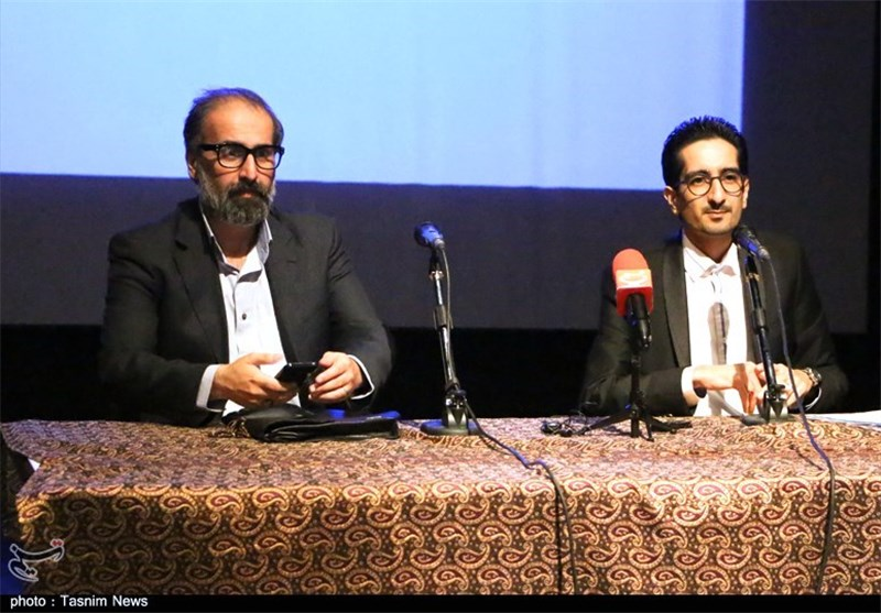 Payam Fazlinezhad